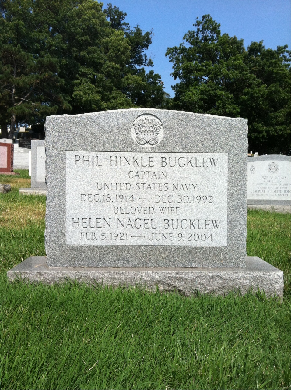 Grave of Phil H. Bucklew at Arlington National Cemetery